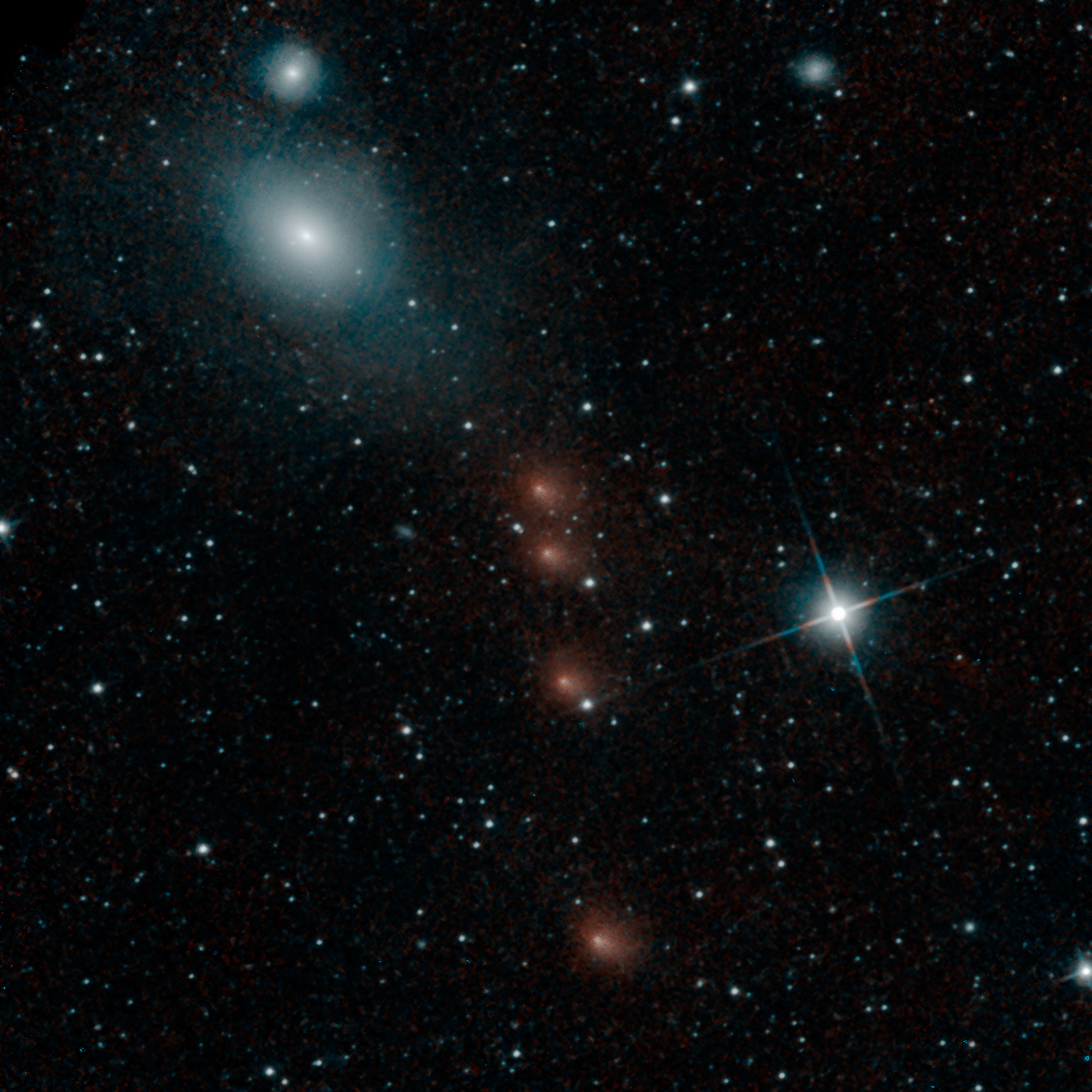 08.07.2014 NEOWISE Spies Comet C/2013 A1 Siding Spring a Second Time NASA's NEOWISE mission detected comet C/2013 A1 Siding Spring on July 28, 2014, less than three months before this comet's close flyby of Mars on Oct. 19. NEOWISE took multiple images of the comet, combined here so that the comet is seen in four different positions relative to the background stars. The image also includes, near the upper right corner, a view of radio galaxy Fornax A (NGC1316). NEOWISE previously observed comet Siding Spring on Jan. 16, 2014 ( NEOWISE is part of a team of observation resources to characterize the comet for the encounter with our neighboring planet. At the time of the July 28 observations, the comet was 144 million miles (1.55 astronomical units) from NEOWISE and 175 million miles (1.88 astronomical units) from the sun. The observations help constrain estimates of dust and gas production as this comet from the outer solar system approaches Mars. NGC1316 is a famous radio galaxy, the fourth-brightest radio source in the sky at 1400 megahertz. It is in the Fornax galaxy cluster, which also includes two other galaxies visible in the image. NGC1316 has an active nucleus, as evidenced by a radio jet and a compact nuclear gas disk. It is thought to be the remnant of a merger between a large elliptical galaxy and a smaller spiral galaxy about 100 million years ago. For more information about comet Siding Spring, For more information about NEOWISE